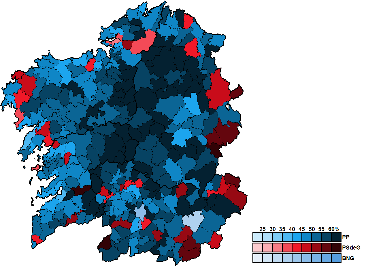 Most-voted party in Galicia municipalities, showing vote share obtained, in the Spanish general election, 1996.